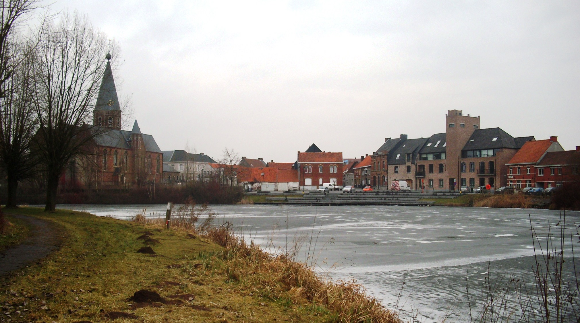 Centre of Machelen (Zulte municipality) along the Leie river, Belgium